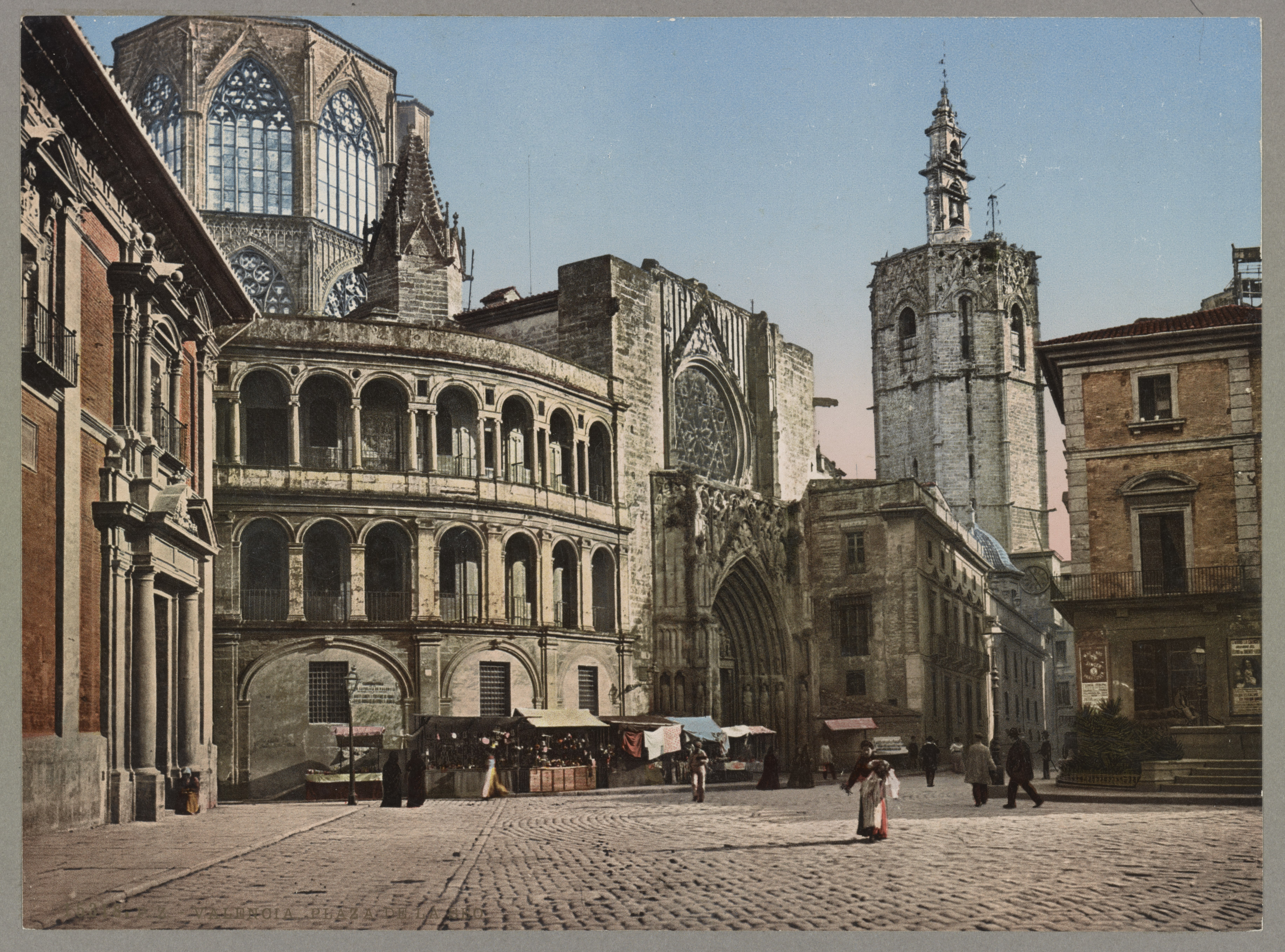 Title: Valencia. Plaza de la Seo Abstract/medium: 1 print : color photochrom ; sheet 17 x 23 cm.